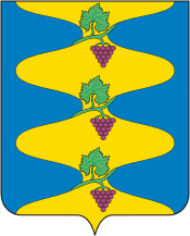 Coat of arms of Sennói, Temriuk Raion, Krasnodar Krai, Russia.